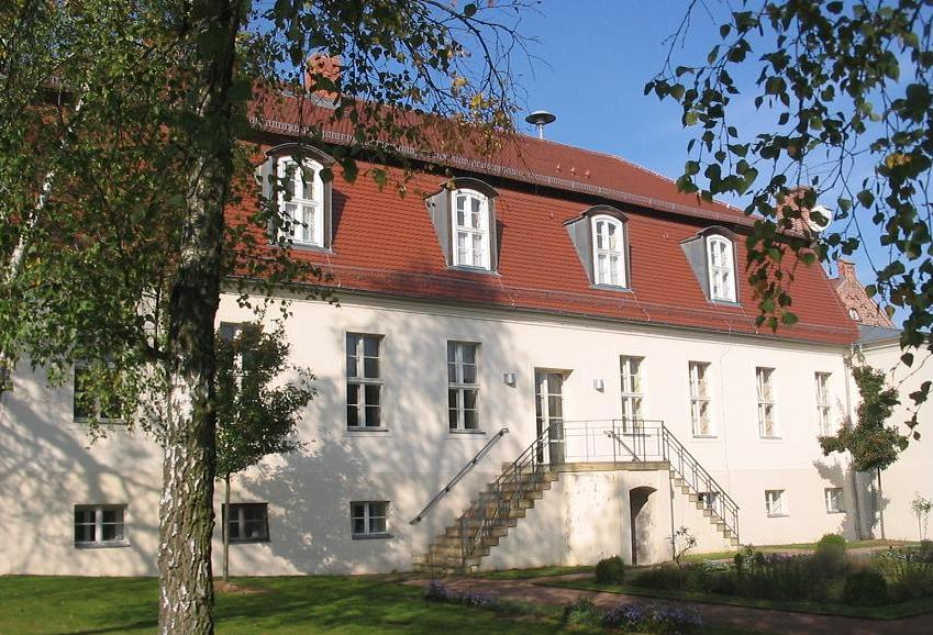 Estate Klein Glien, Klein-Glien is a part of Hagelberg. The village Hagelberg again is a part of the town Belzig in the district Potsdam Mittelmark, state Brandenburg, Germany. The village appertains to the nature park Naturpark Hoher Fläming.